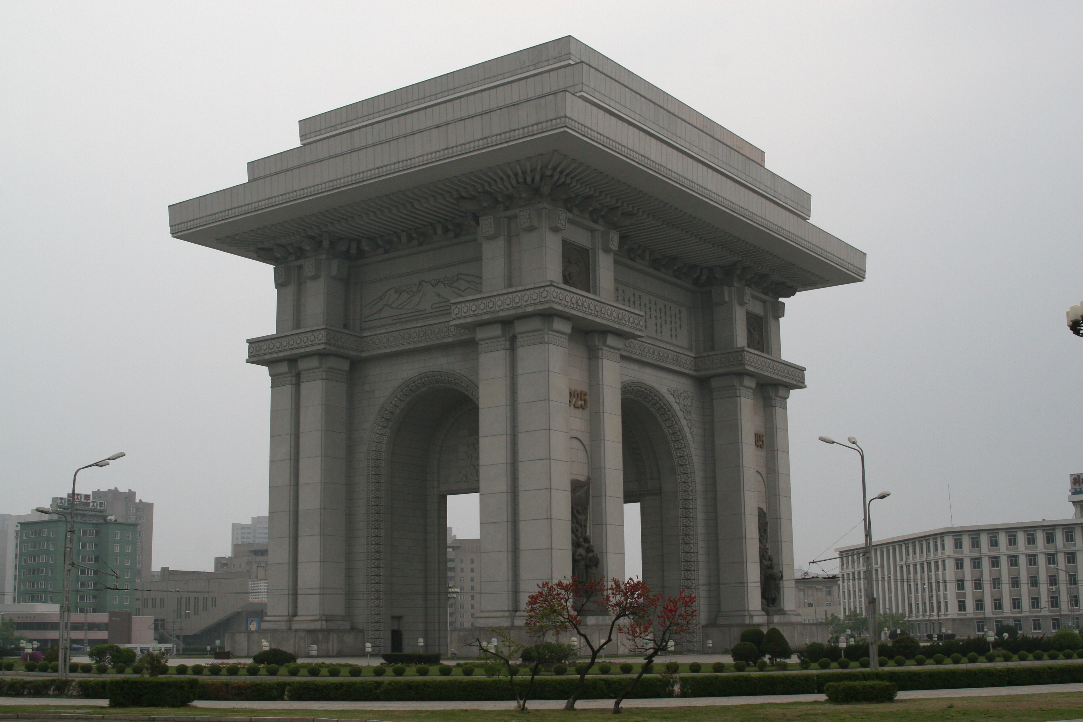 The Arch of Triumph in Pyongyang